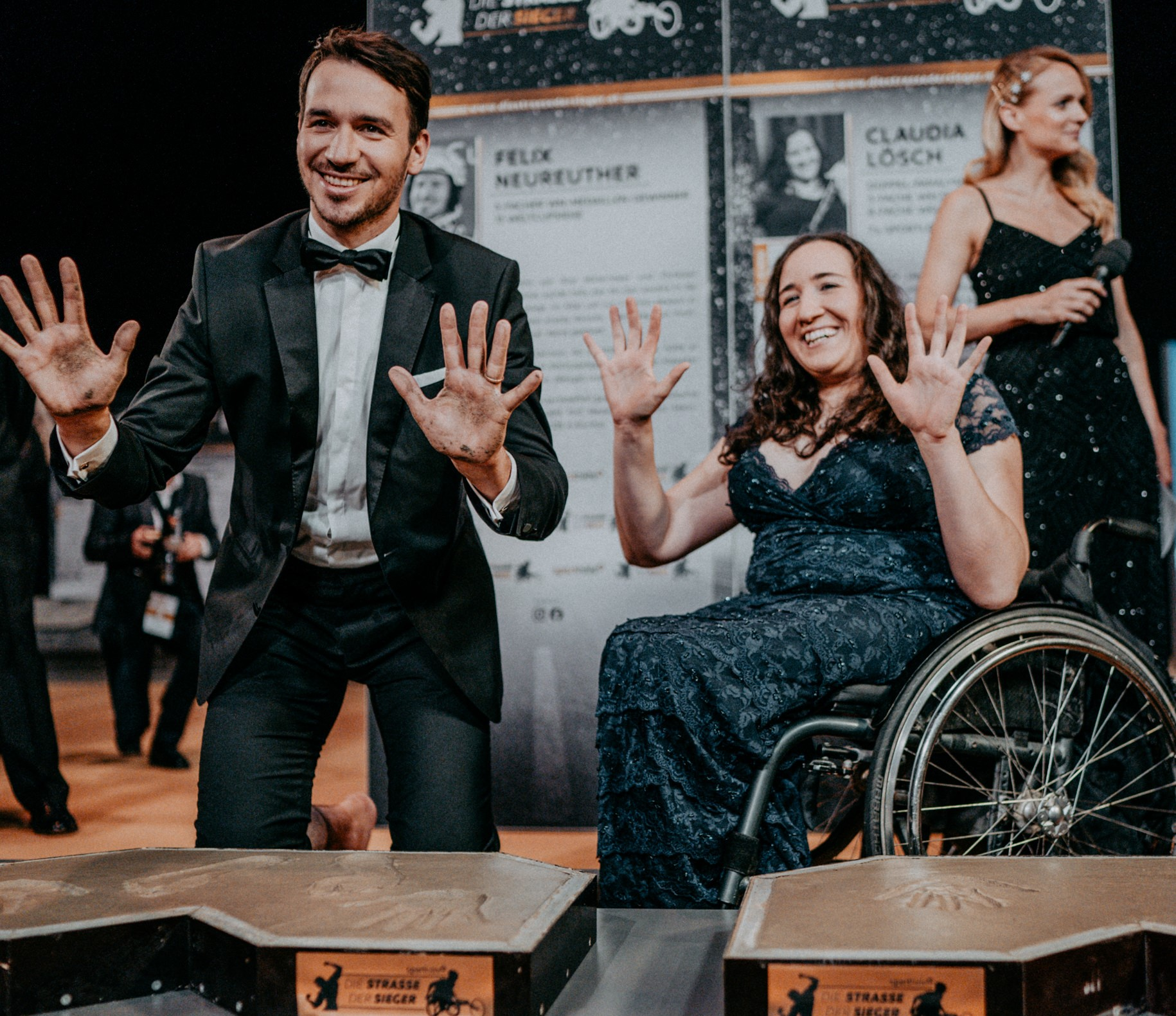 Felix Neureuther und Claudia Lösch nach ihren Abdrücken für die Straße der Sieger